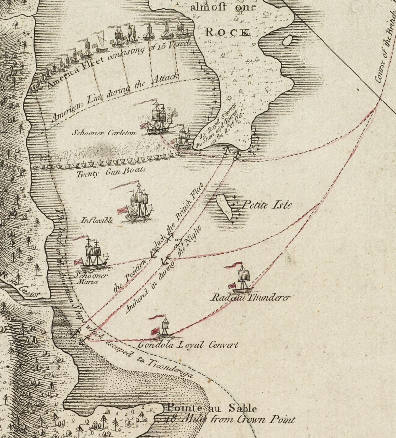 source map showing area detailed in this image This is a blowup of the area highlighted in the map shown to the right, showing the detail of the action in the Battle of Valcour Island.